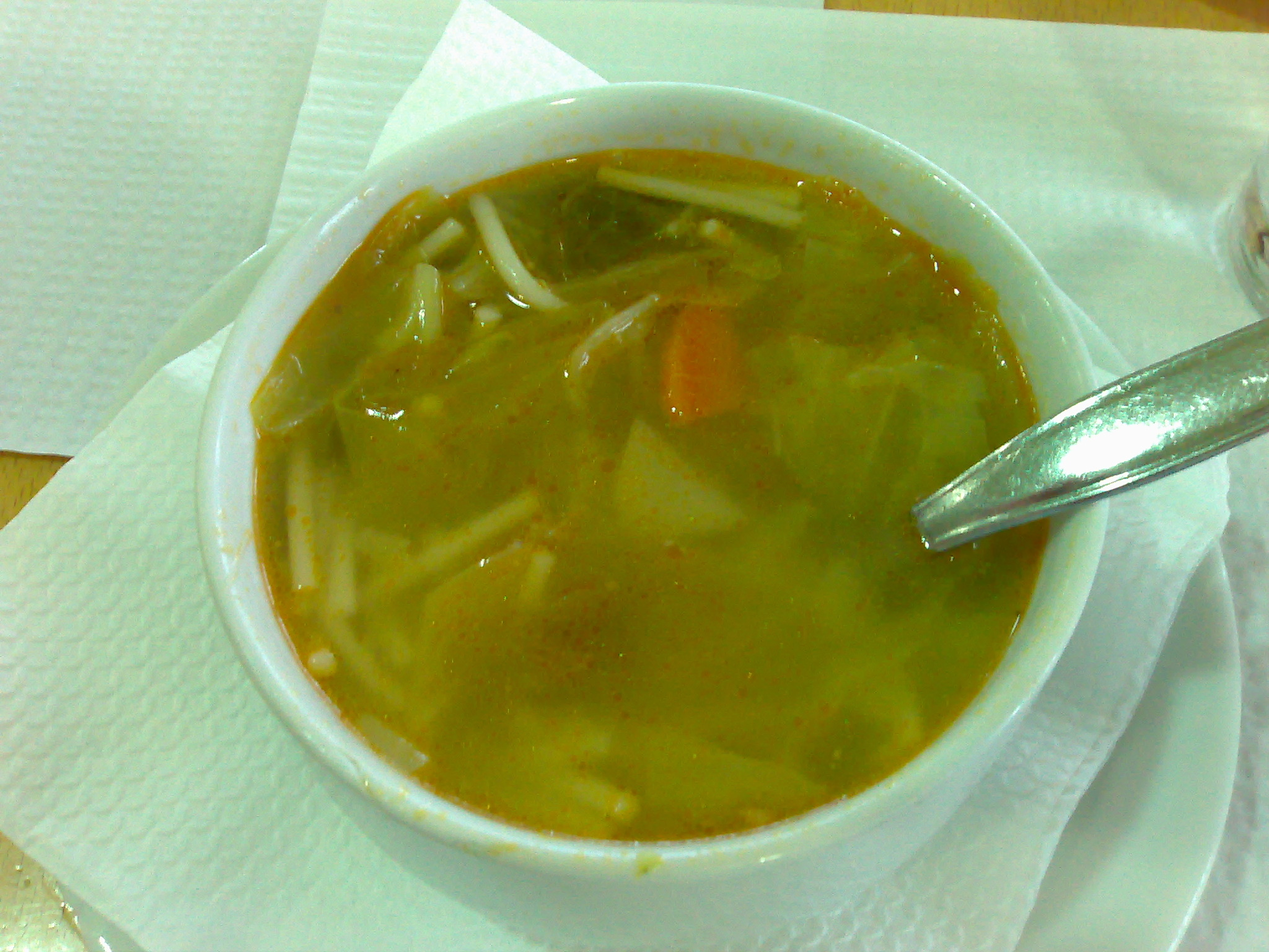 Soup of the cozido à portuguesa, from Portugal.